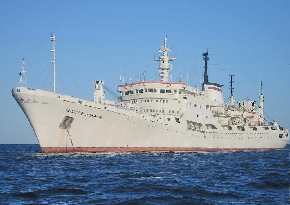 Admiral Vladimirskiy.